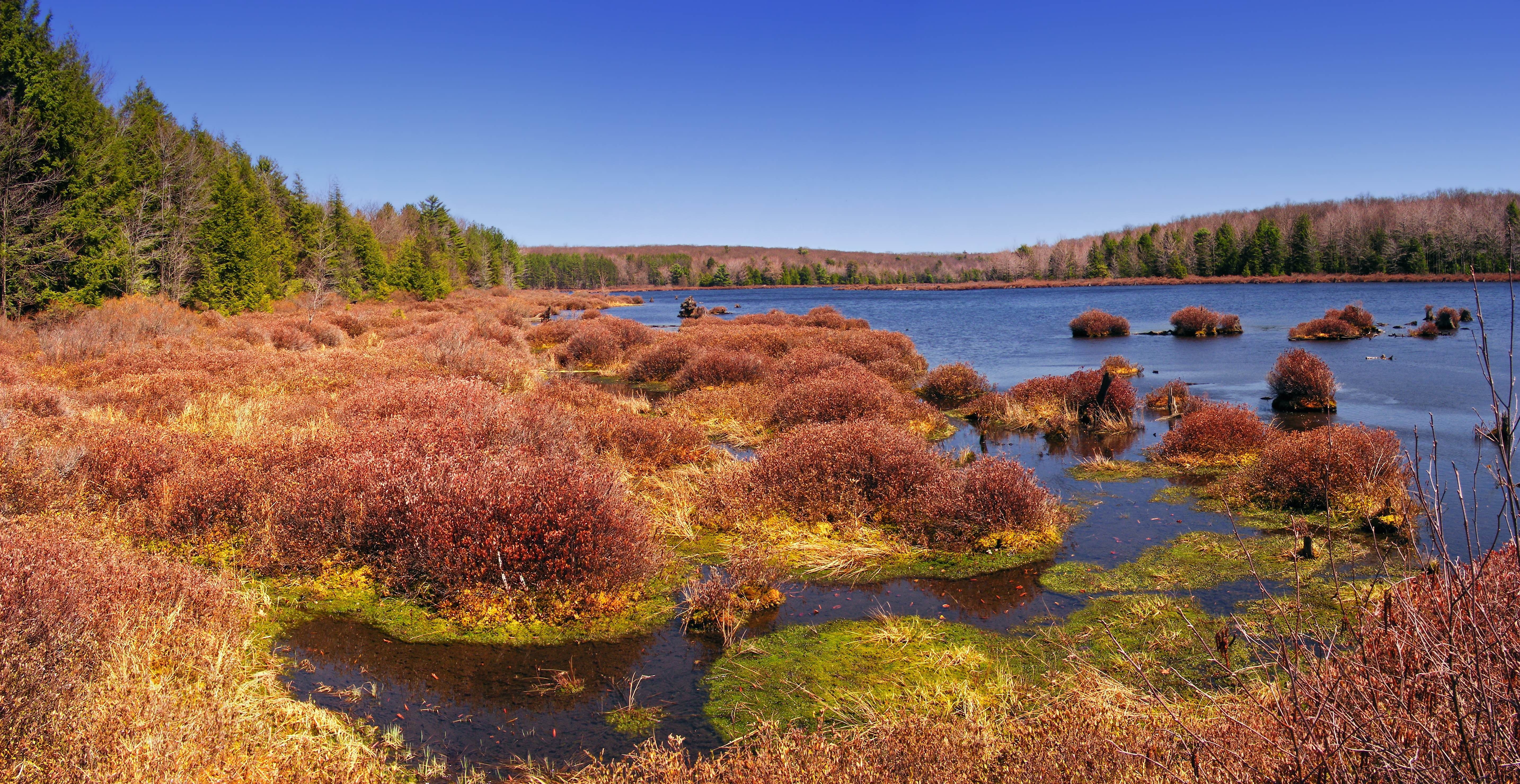 Wetland (north view), Black Moshannon State Park, Centre County.